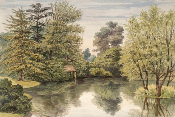 Painting of Soho Pool, Handsworth (now Birmingham), England by Allen Edward Everitt.